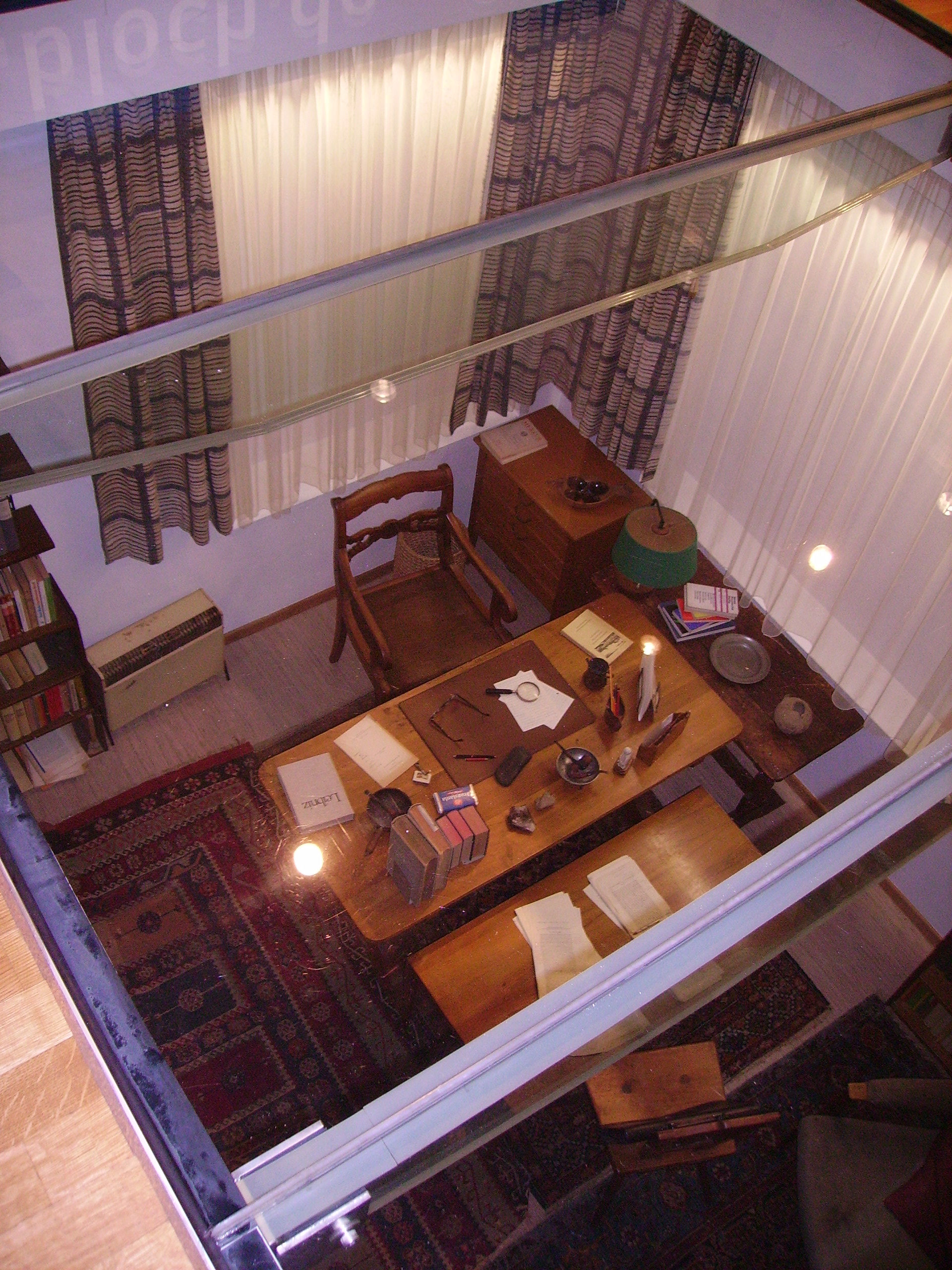 Ernst-Bloch-Zentrum in Ludwigshafen, Germany